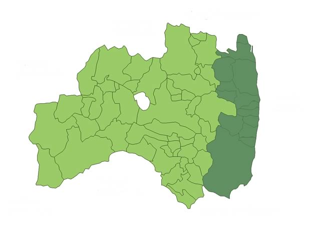 Map showing the Hamadōri region of Fukushima Prefecture, Japan